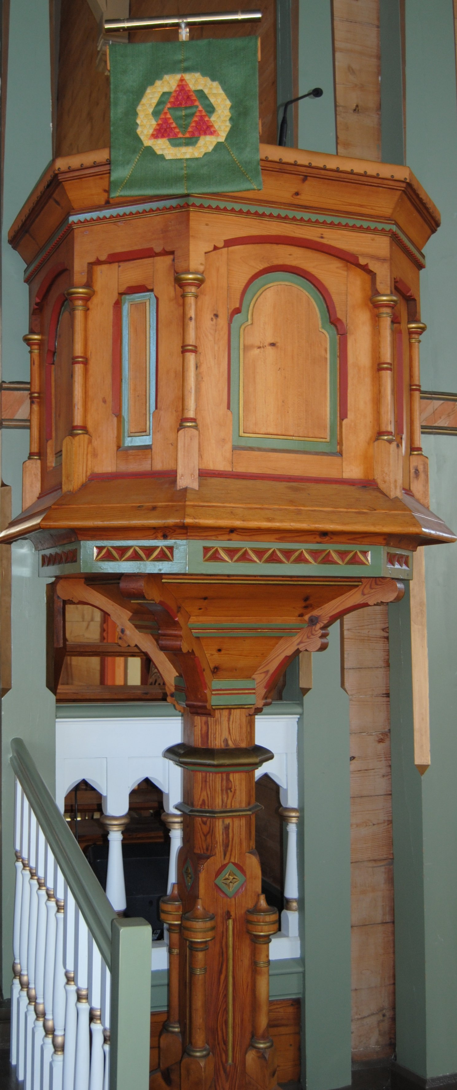 Pulpit in Manger church, Norway